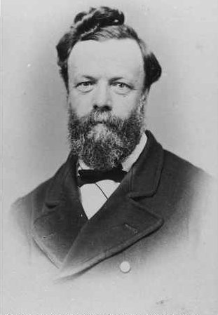 George Woodroffe Goyder - picture apparently taken around 1869 by an unknown source Downsampled part of an image held by the State library of South Australia. (image#B3198)